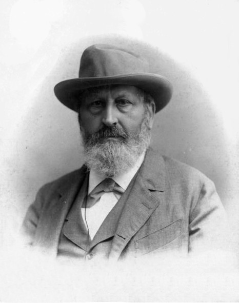 Eduard Suess (1831 – 1914), Austrian geologist